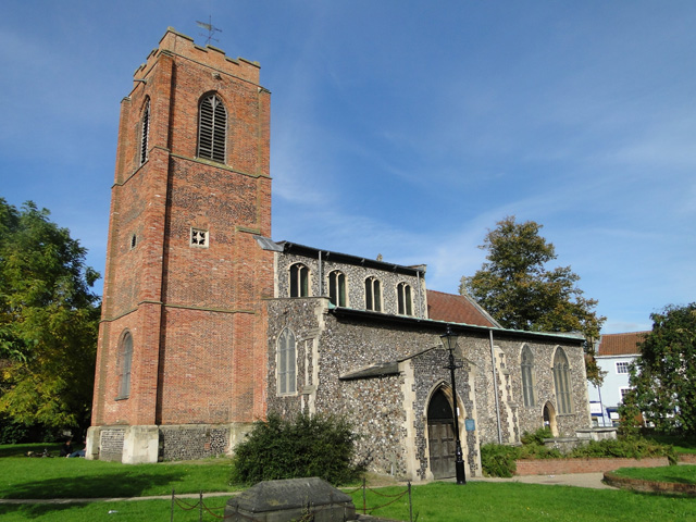 Norwich St Augustine's church, near to Norwich, Norfolk, Great Britain. This church is cared for by The Churches Conservation Trust.